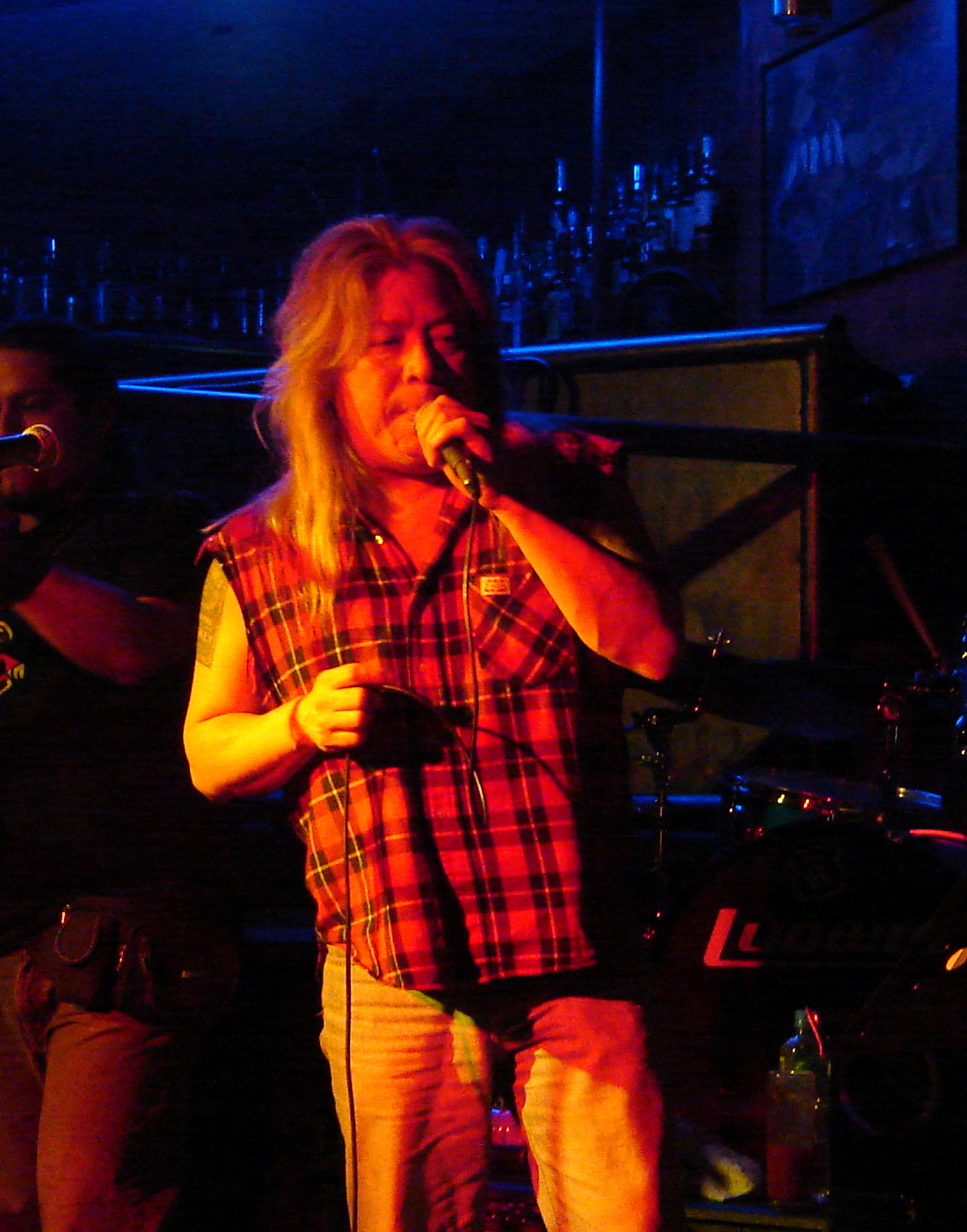 Una total sorpresa ver al buen Charly en ese bar, un palomazo inesperado y bien recibido. Comentado en el blog: Gracias Hugo Garcia Michel por llevarlo! Mas sobre Charlie Monttana: Referrer(s) / Used on